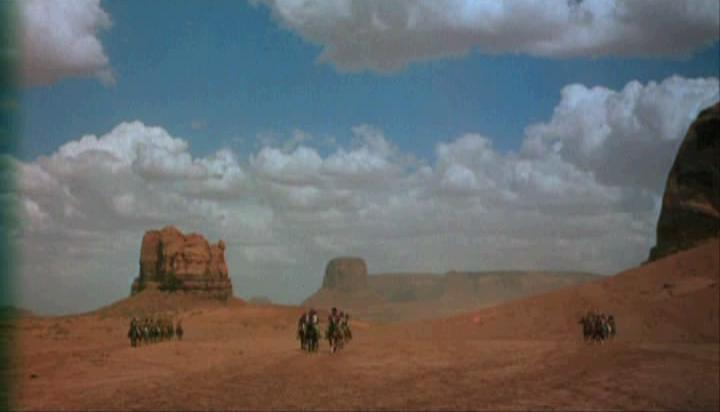 The Searchers is a 1956 Western film directed by John Ford which tells the story of a man who spends years looking for his niece who was taken by Indians. This image is a screenshot from a public domain trailer for the film. Trailers for movies released before 1964 are in the Public Domain because they were never separately copyrighted.